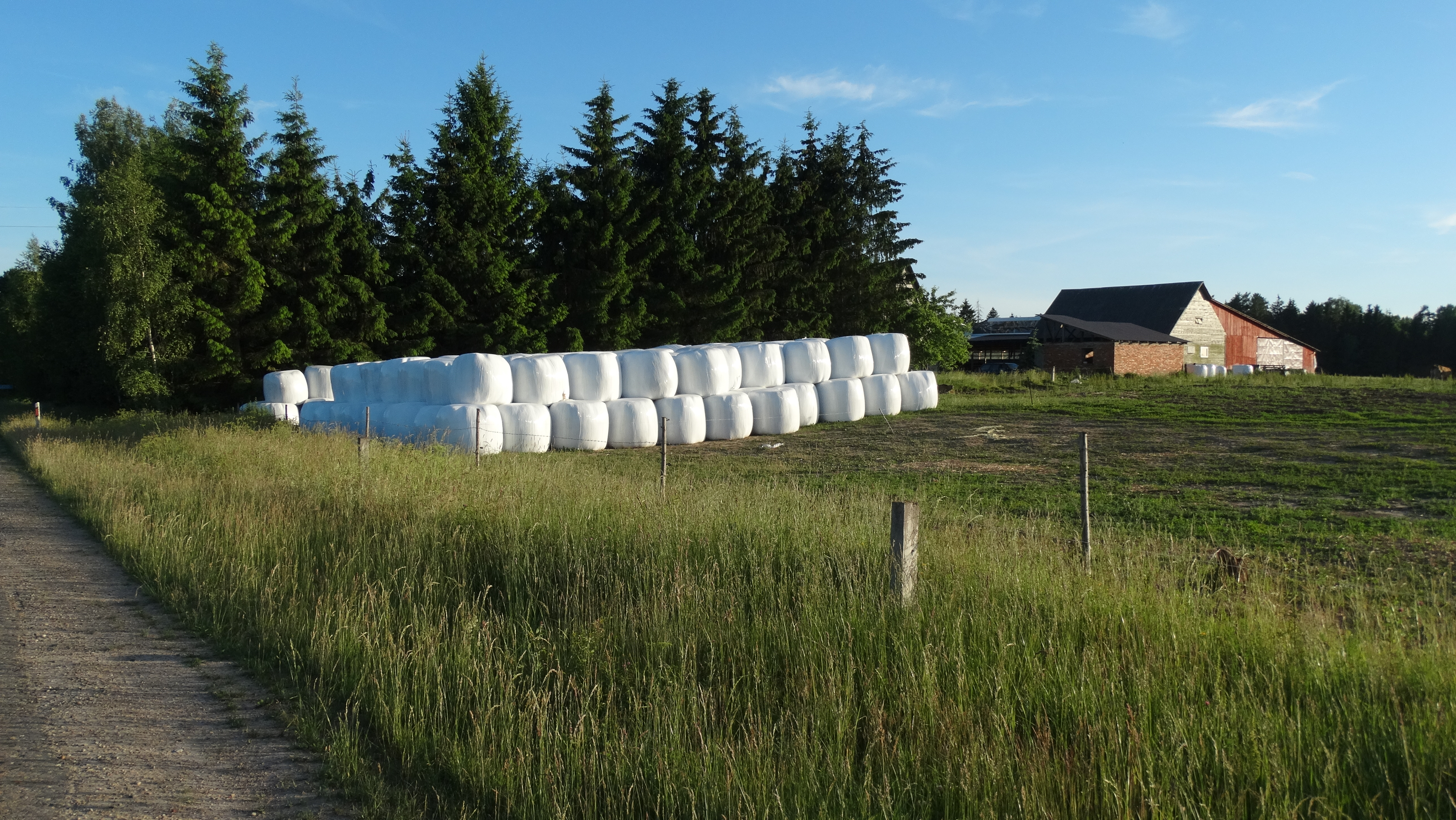 Darbutai, Raseiniai district, Lithuania